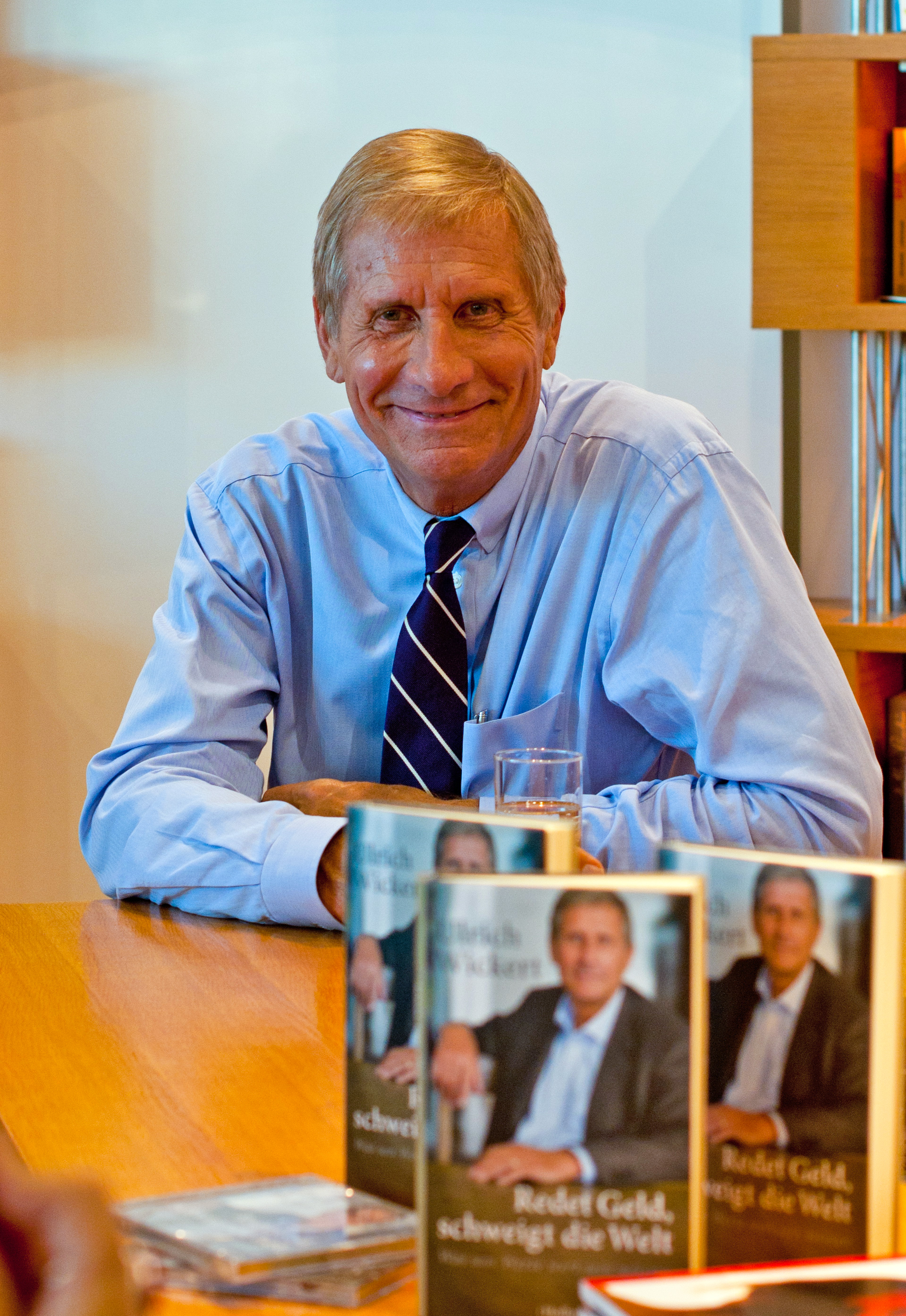 german journalist Ulrich Wickert